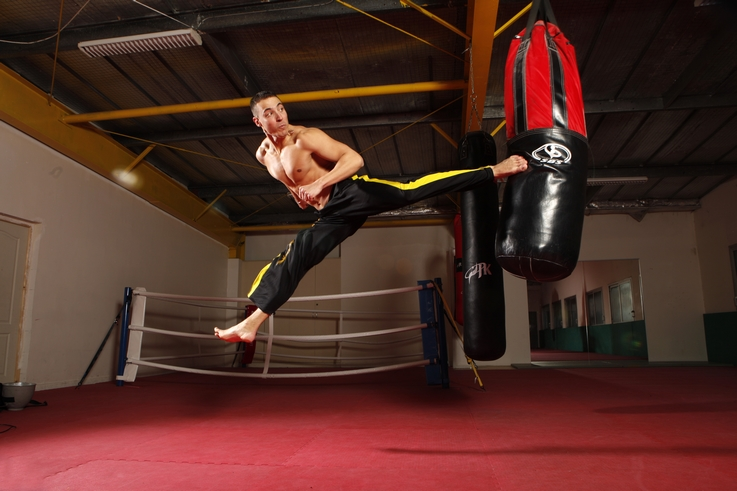 Greg Justin by Johann Vayriot